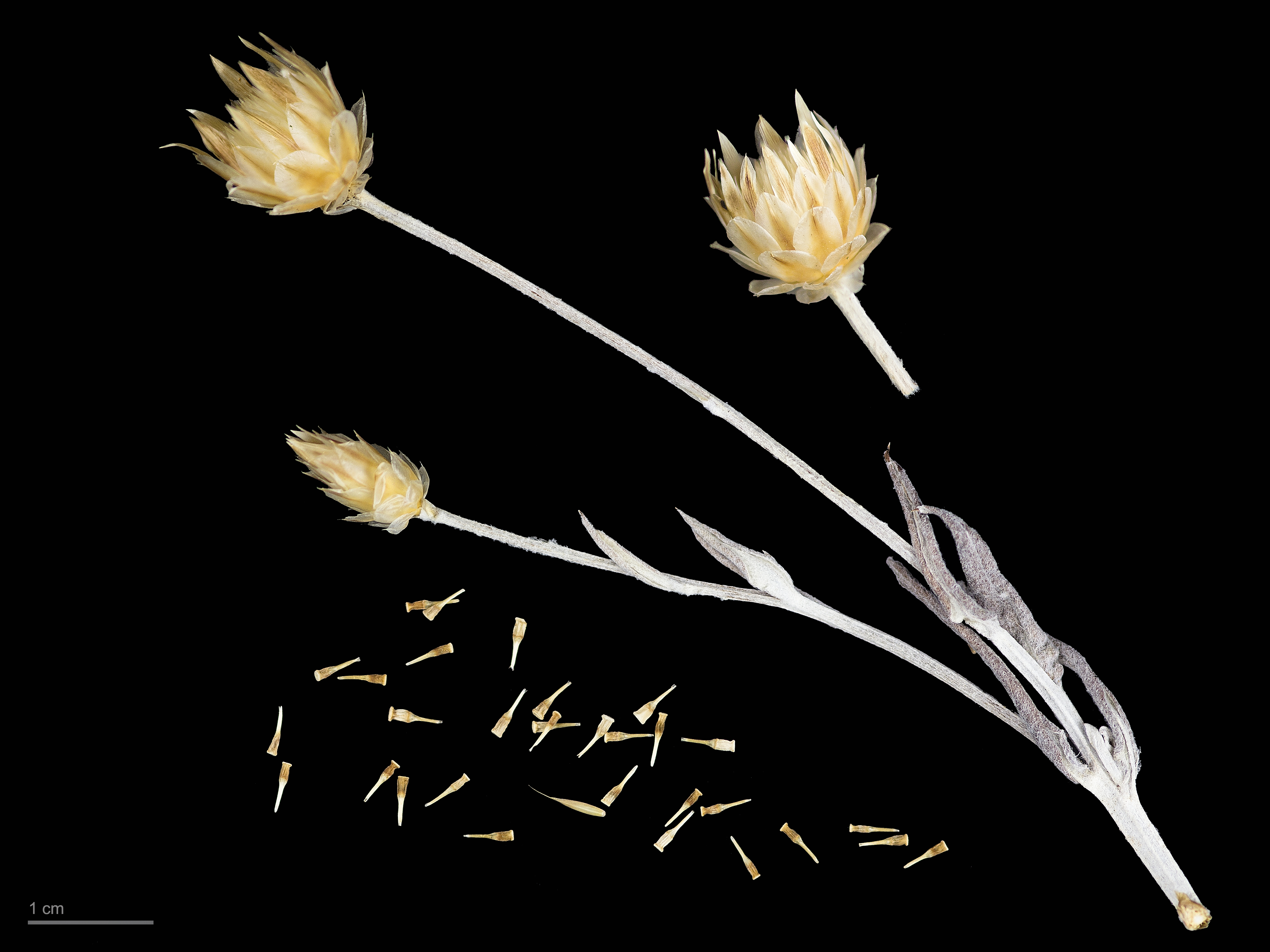 Xeranthemum inapertum , fruits and seeds